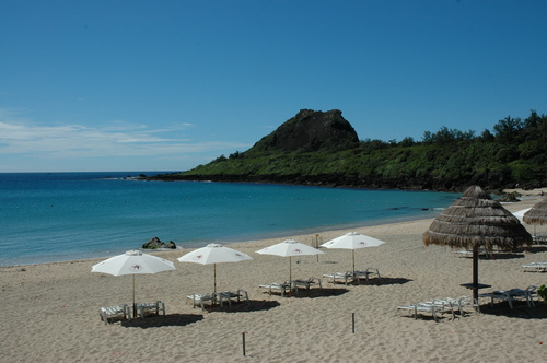 Beach of the Caesar Hotel in Kenting